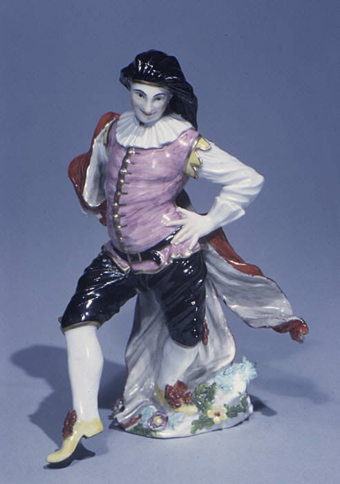 German, Meissen; Figure; Ceramics-Porcelain